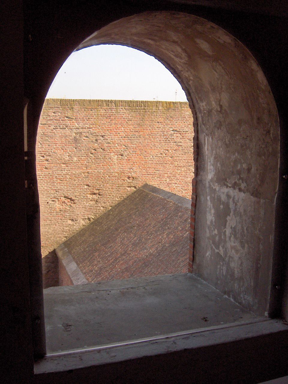 View through window on caponnière and counterscarp - Fort Napoleon - Ostend, Belgium